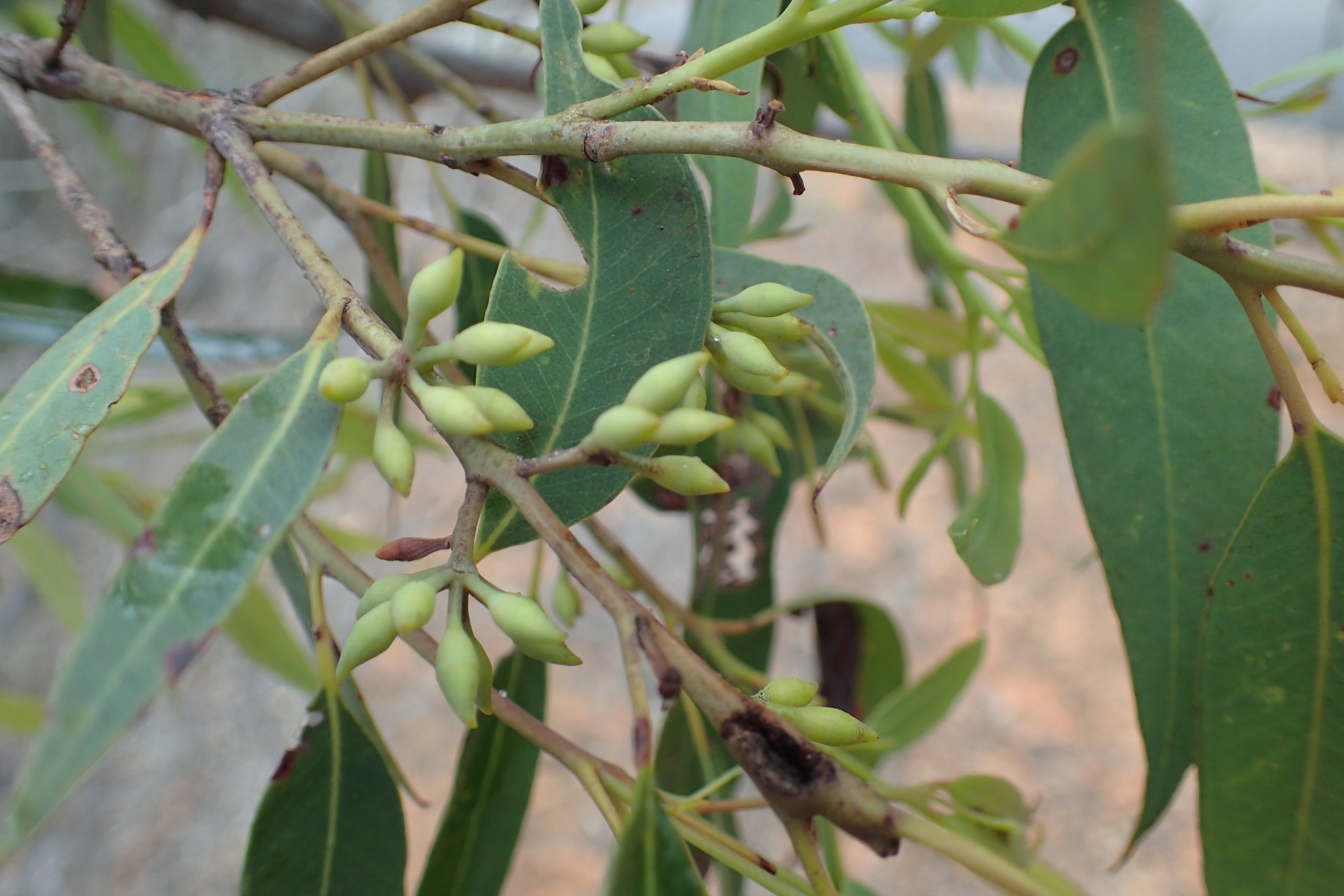 Flower buds of Eucalyptus helidonica near Seventeen Mile Road, Helidon, Queensland